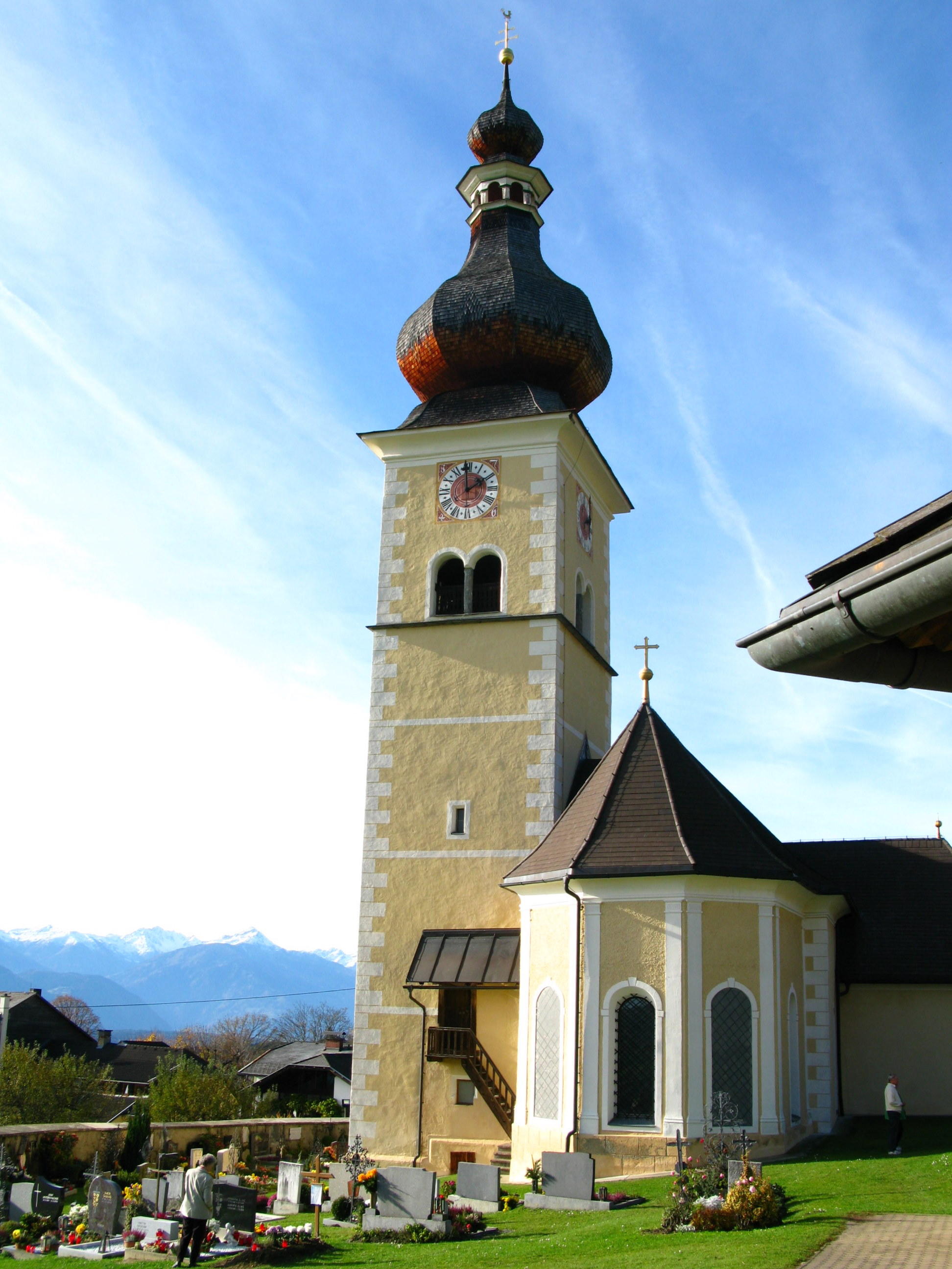 Church in Obermillstatt near Lake Millstatt (Millstätter See), district Spittal an der Drau in Carinthia, Austria / European Union. View to the southwest. Shot in the fall of 2008 to All Saints. In the foreground of the photo is the cemetery. Access to the tower is via a wooden staircase. Behind the cemetery wall, the village can be seen.